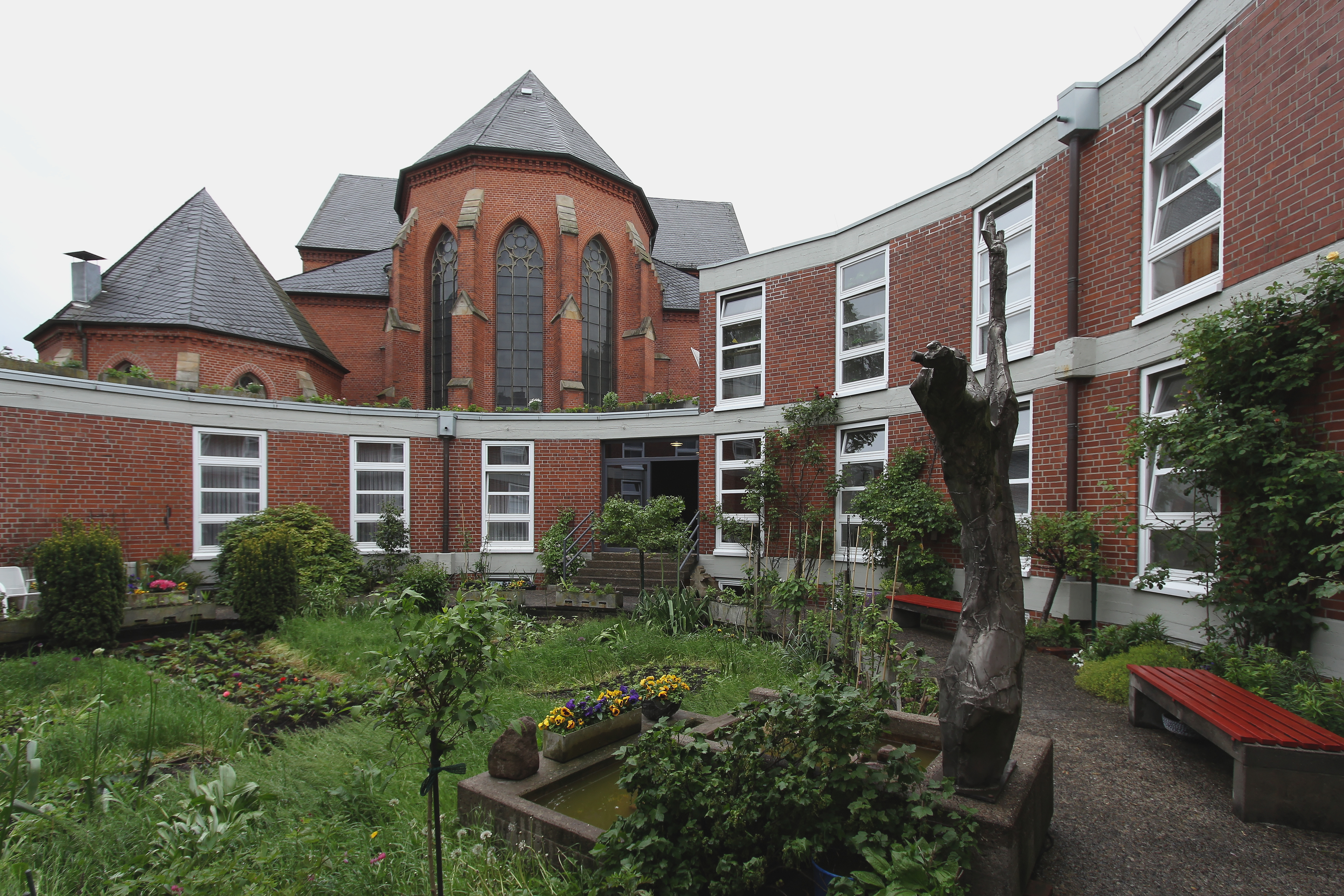 Central yard of the monastery St. Johannis in Hamburg-BarmbekThis is a photograph of an architectural monument.